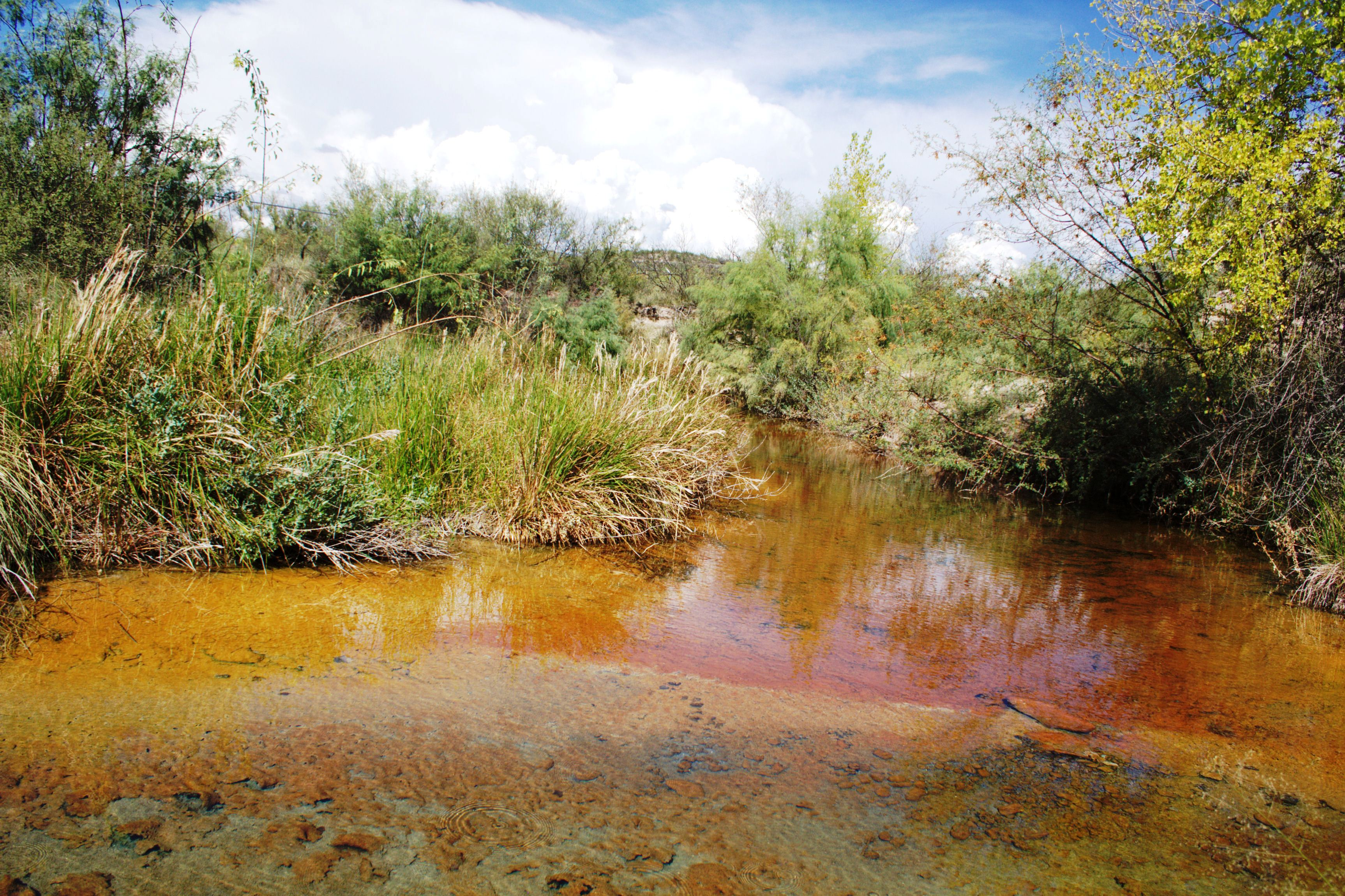 El Pandeño hotspring in Julimes Chihuahua home to the microendemic Julimes pupfish